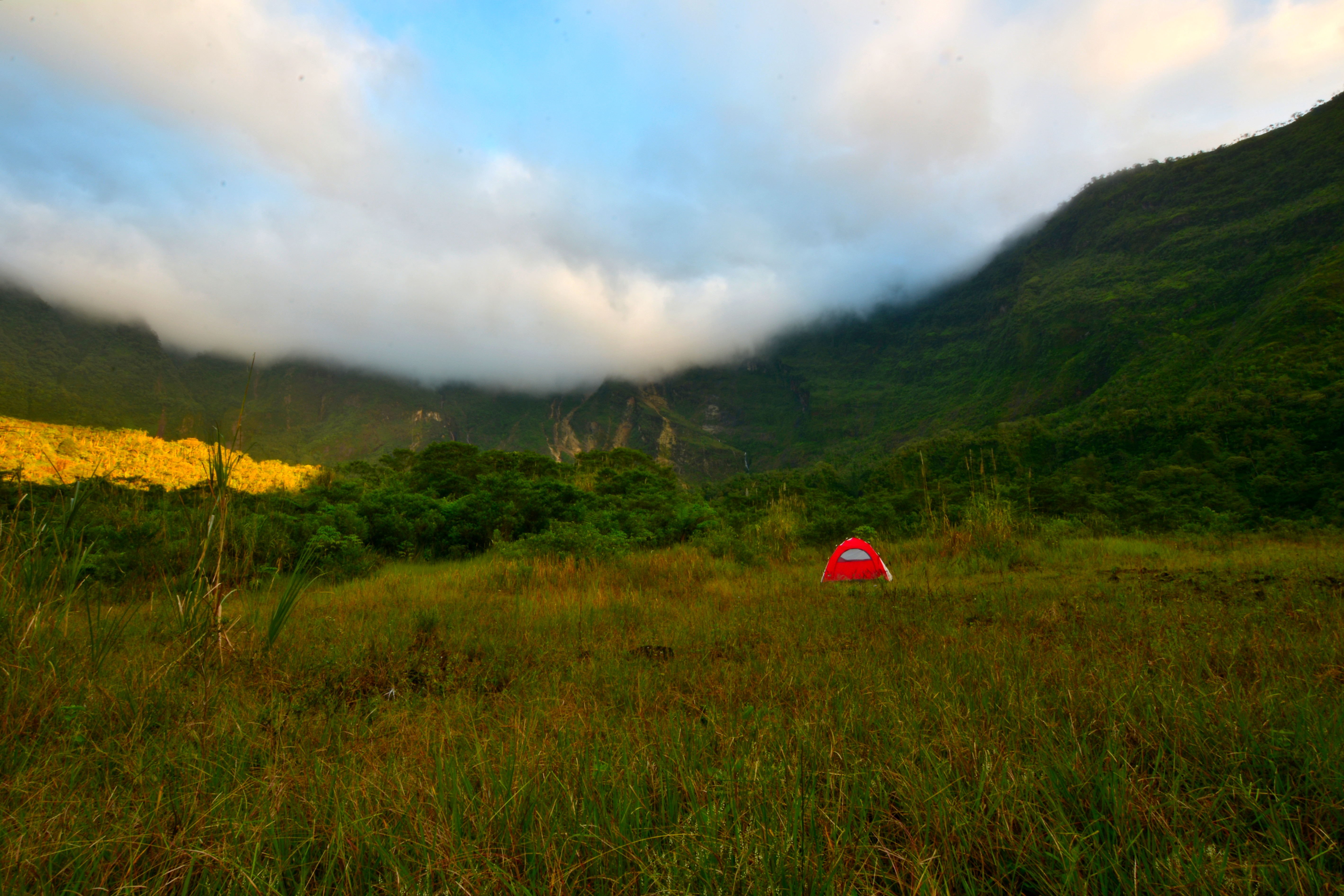 Camping ground at Galunggung mountain caldera